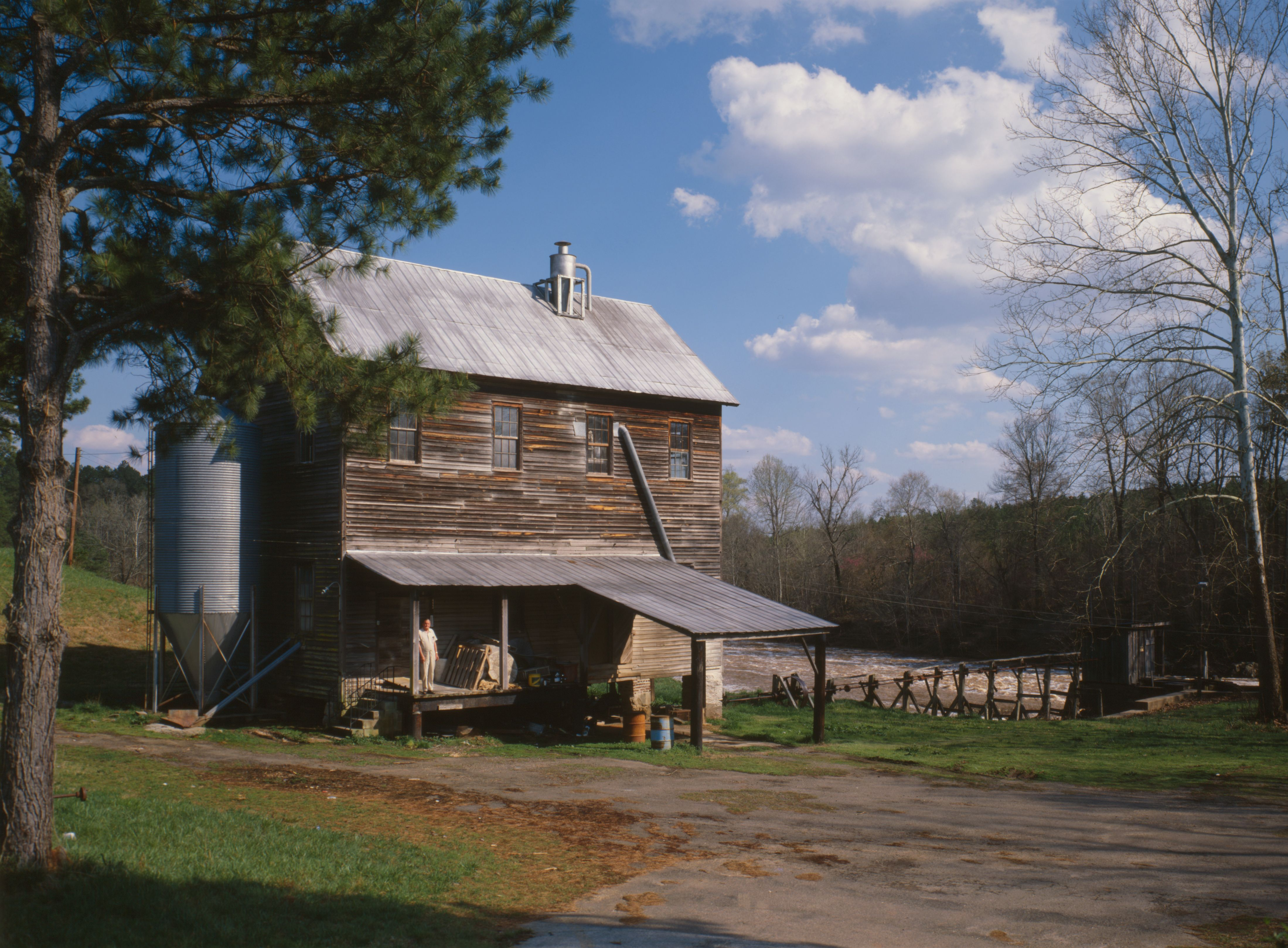 Calliham's Mill, SC Route 138 on Stevens Creek, 2 miles east of Par, Parksville vicinity (Mccormick County, South Carolina)